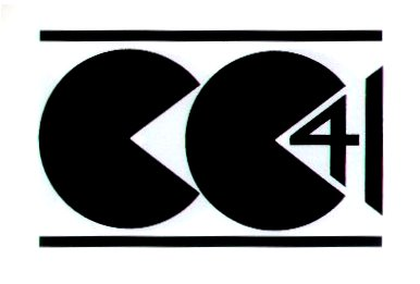 Utility Clothing and Utility Furniture mark. Known as the "Cheeses" logo, stamped on all fabrics and furniture, designed by Reginald Shipp. Molto Italian Futurist influences.